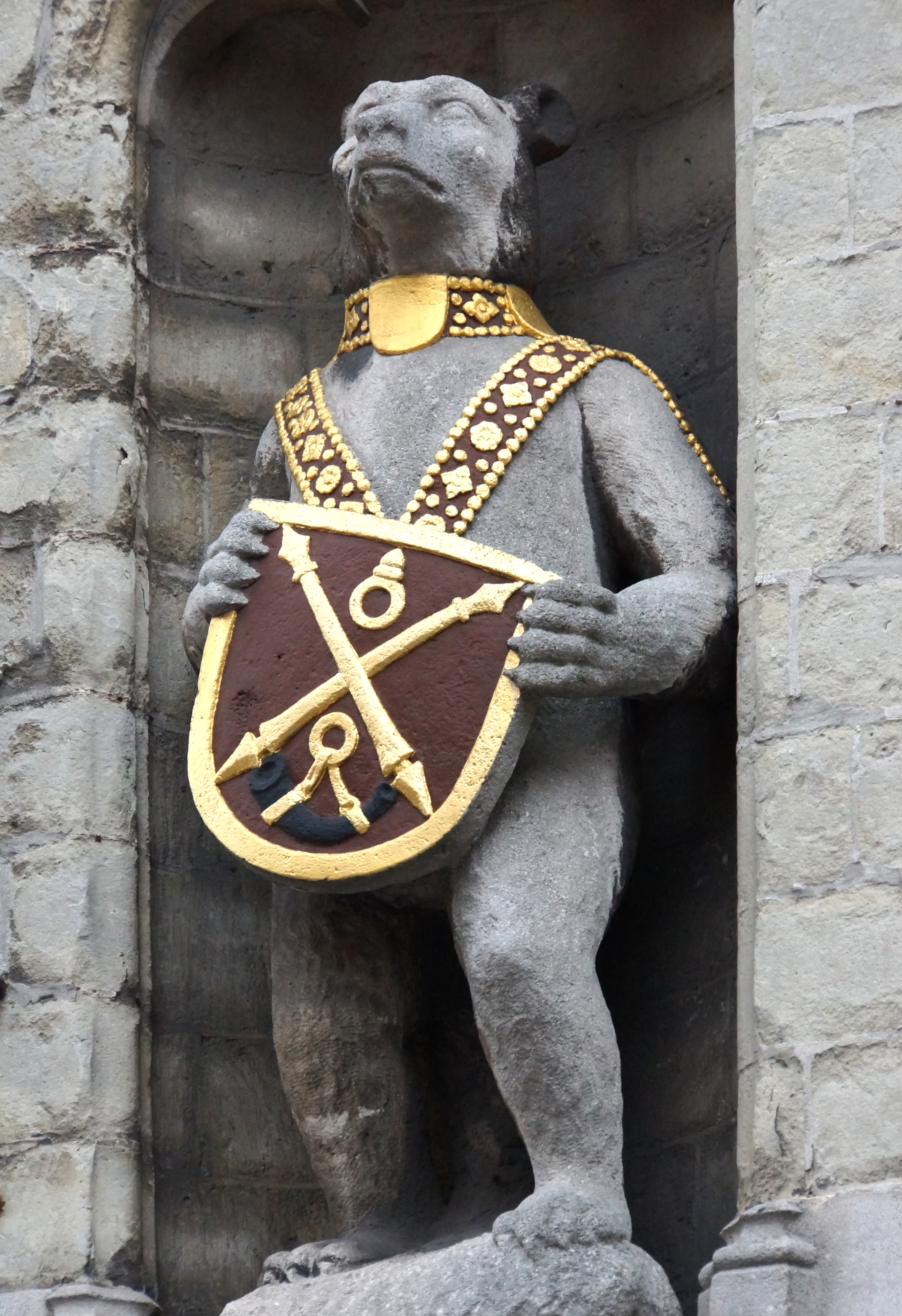 PLEASE, NO invitations or self promotions, THEY WILL BE DELETED. My photos are FREE to use, just give me credit and it would be nice if you let me know, thanks. When Baldwin Iron Arm, the first Count of Flanders, visited Bruges for the first time, the first creature he saw was a big brown bear. Legend has it that, all this happened in the 9th century. After a fierce fight the count succeeded in killing the animal. In homage to the courageous beast he proclaimed the bear to be the city's very own symbol. Today the bear in the niche of the Burghers Lodge is festively rigged out during special celebrations. It is also the symbol of the jousting association ‘De Witte Beer’ (the White Bear).